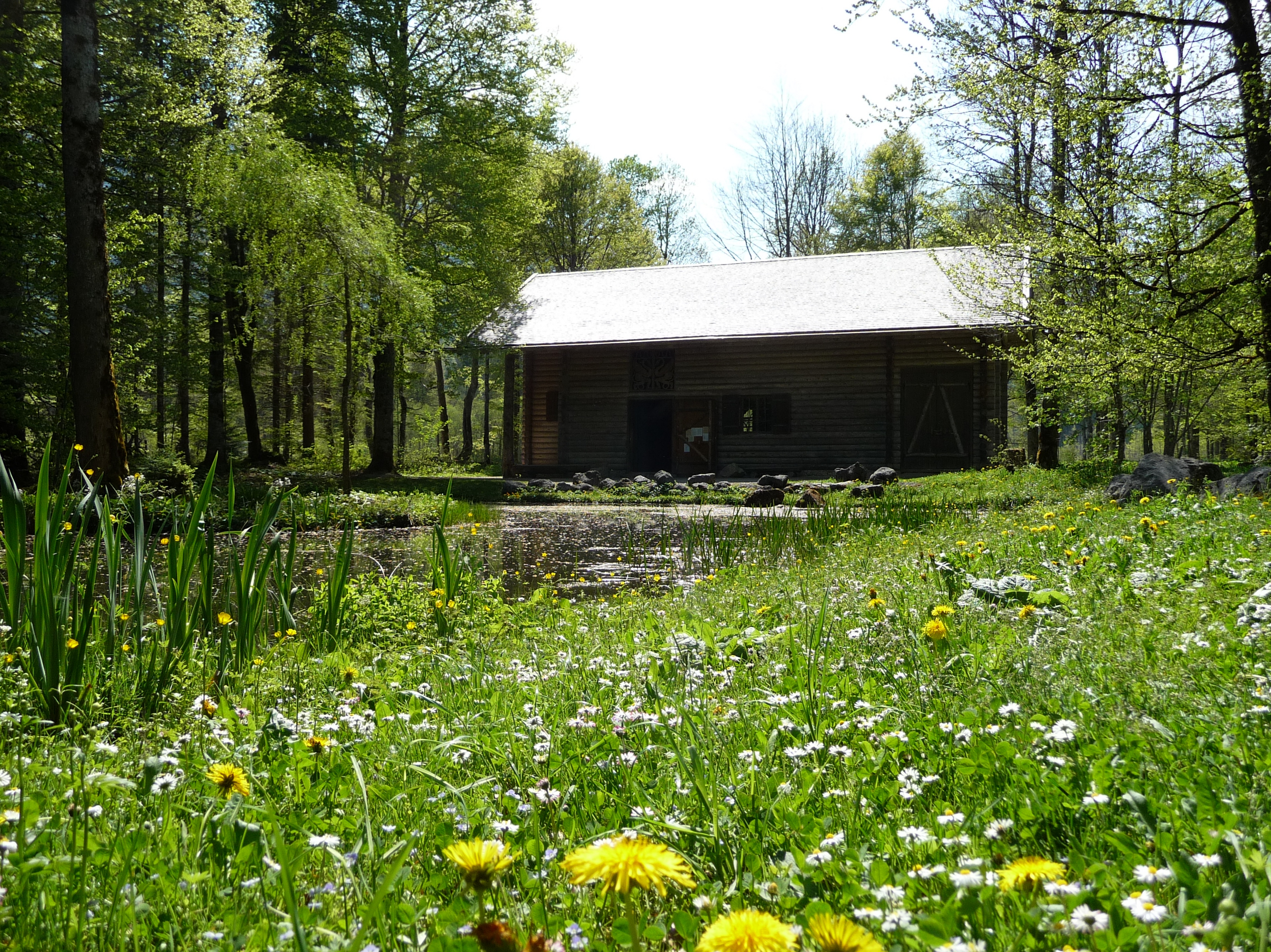 Hunding's Hut at Linderhof Palace, Bavaria, Germany